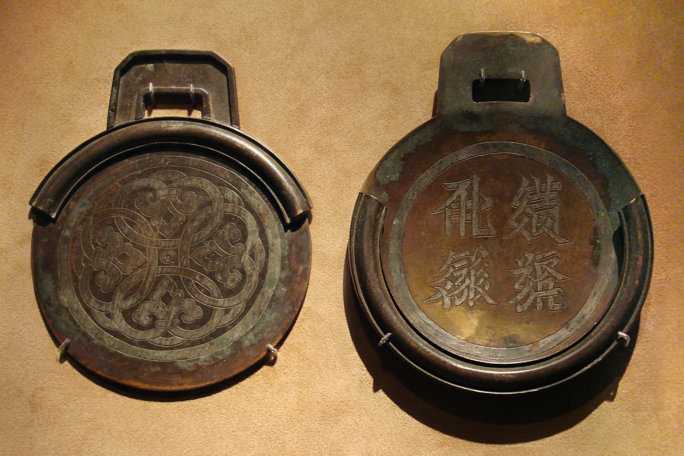 Bronze Edict Plates with Western Xia characters. Exhibition "Treasures of China", Canadian Museum of Civilization, 2007. Western Xia Dynasty (A.D. 1038 - 1227) Created by the Dang Xiang ethnic group, the Western Xia characters used modified Chinese scripts. When joined together perfectly, these bronze plates prove the bearer's identity. The interior of one plate is decorated with stylized patterns; on the other plate is written Western Xia characters. Edict plates were used to send urgent documents and messages, under imperial orders.